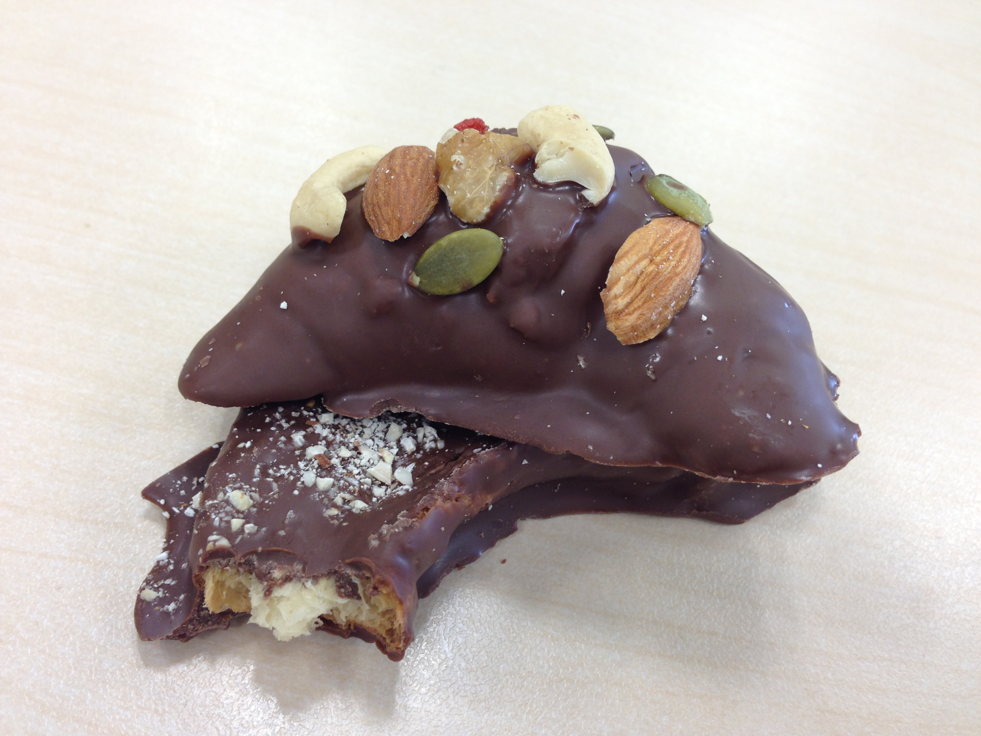 Croissant rusk covered with chocolate and nuts, Japan 2013, made by Ohzan in Akita.